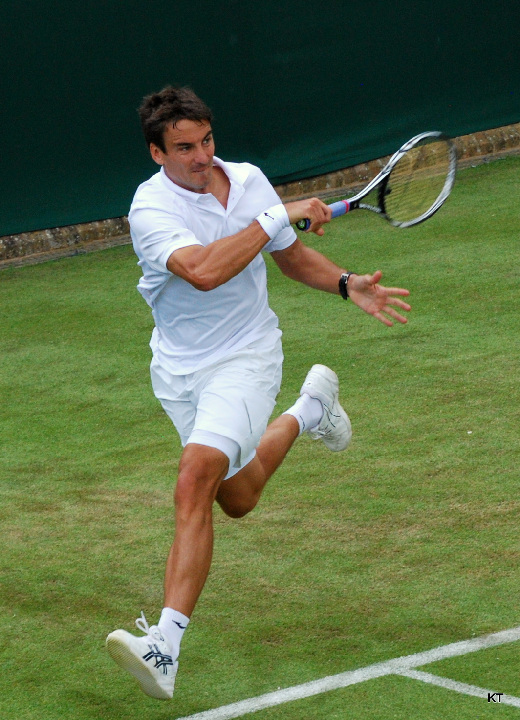 Tommy Robredo during his 1st round match with Yen-Hsun Lu. Lu won 6-4, 6-4, 6-1. Day 2 of Wimbledon 2011.